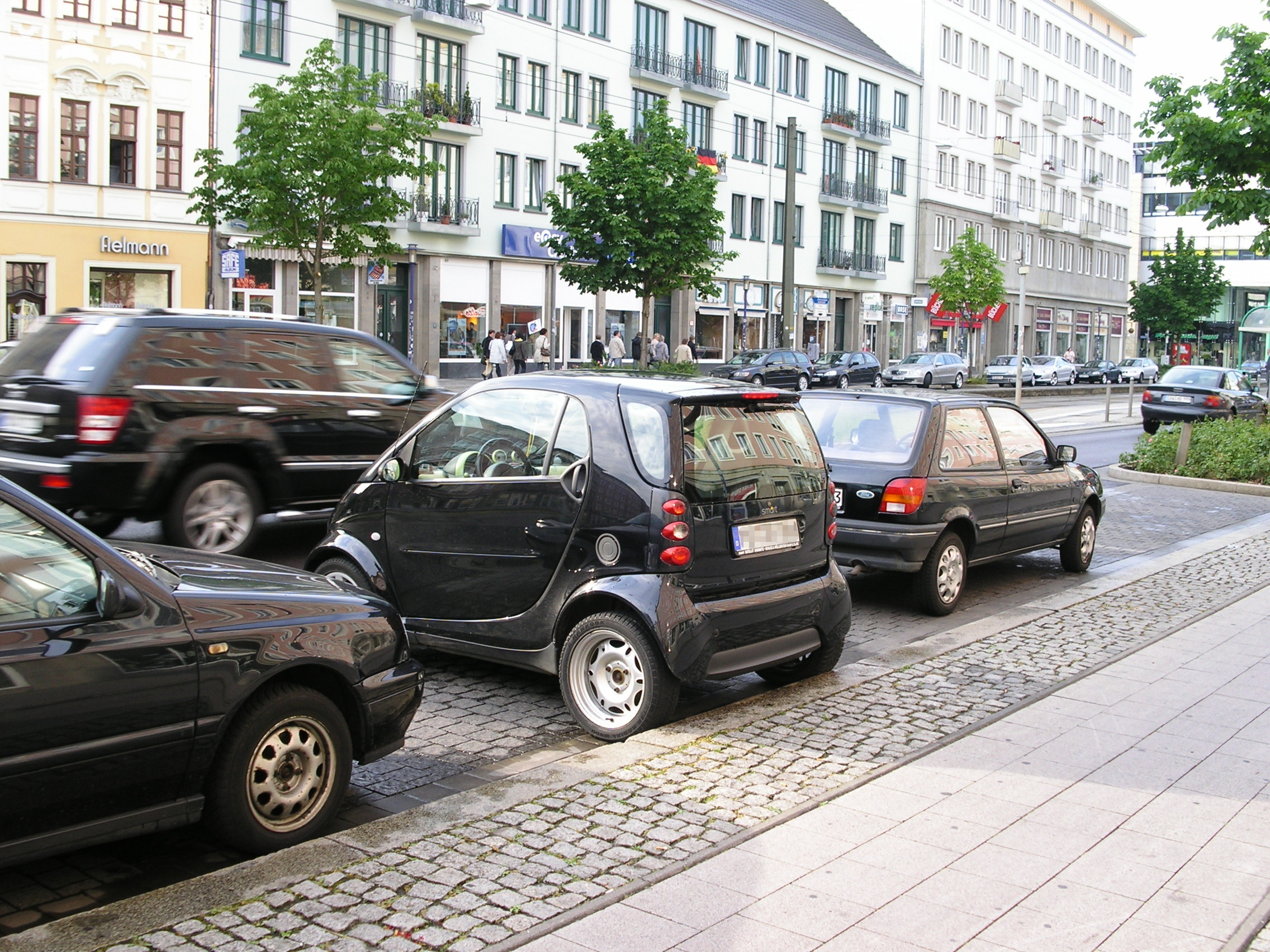 Smart across the parking lot